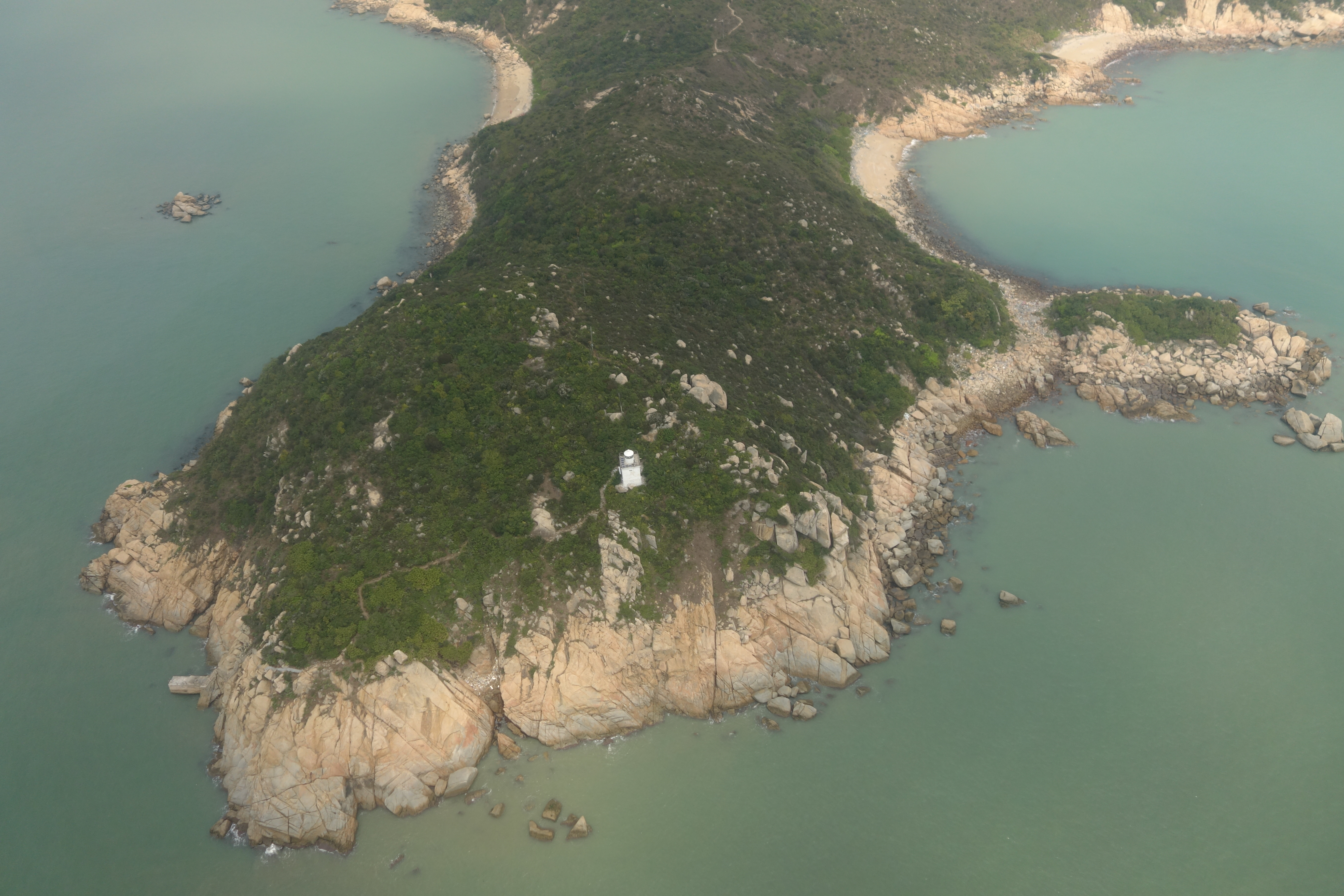 Aerial view of Fan Lau Kok (分流角)and Fan Lau Lighthouse at the Southwestern tip of the peninsula